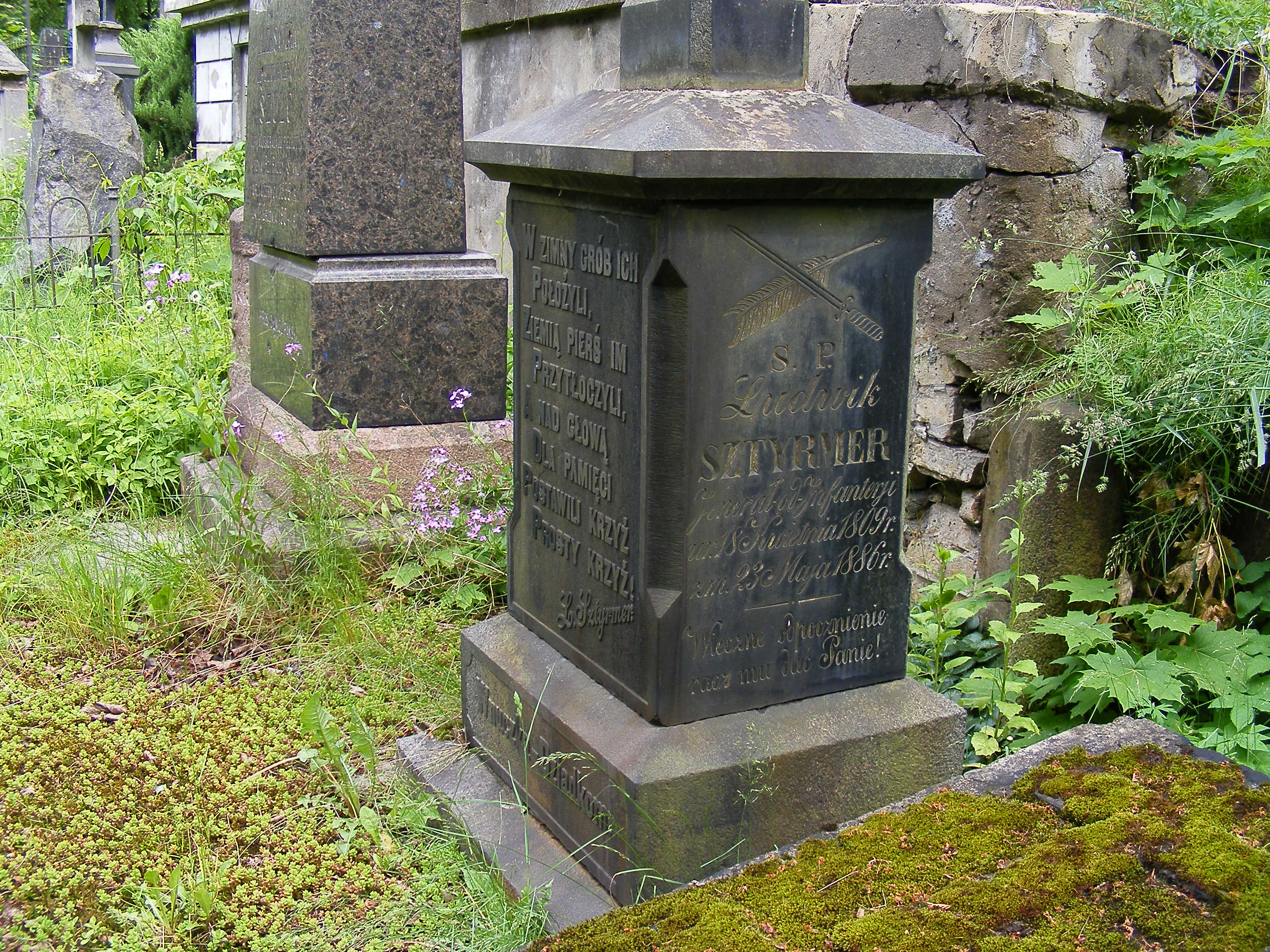 Ludwik Sztyrmer's tomb.